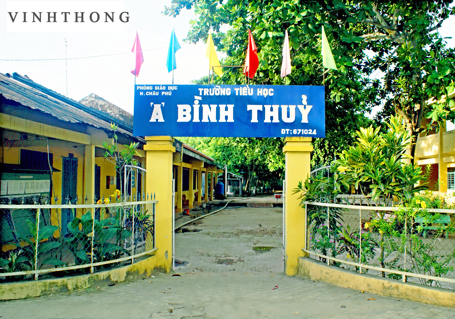 Trường TH A Bình Thủy, xã Bình Thủy, Châu Phú, An Giang